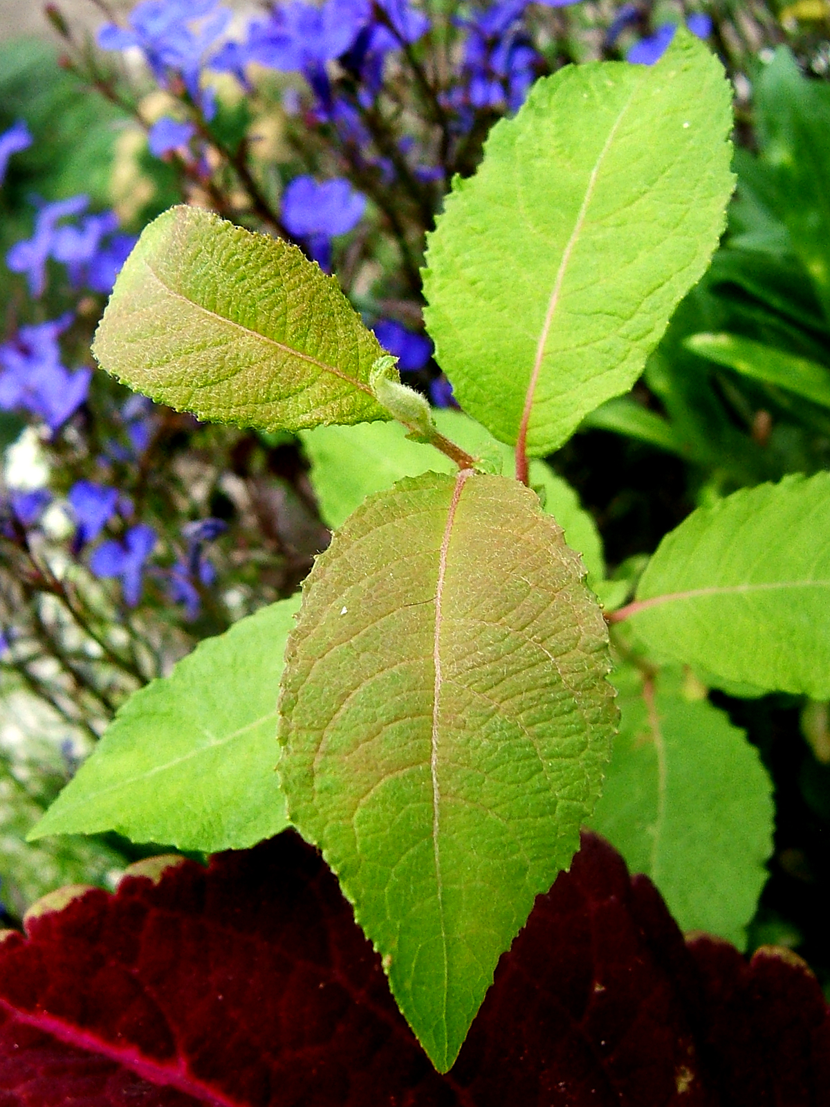 Goat Willow, Pussy Willow, Great Sallow